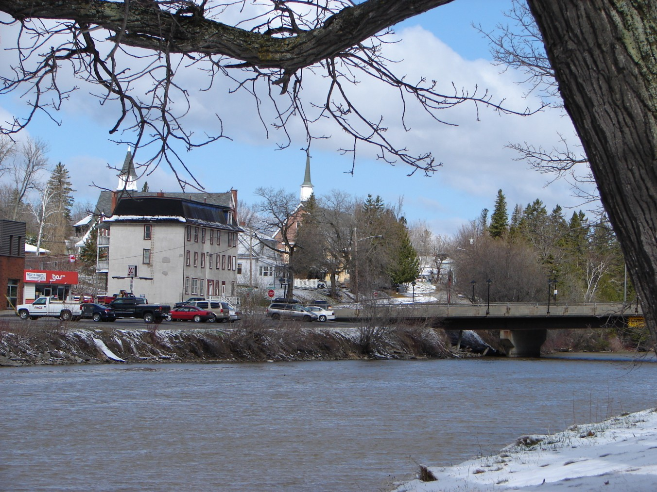 New Liskeard, Ontario, Canada